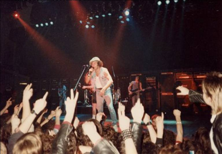 AC/DC in concert.